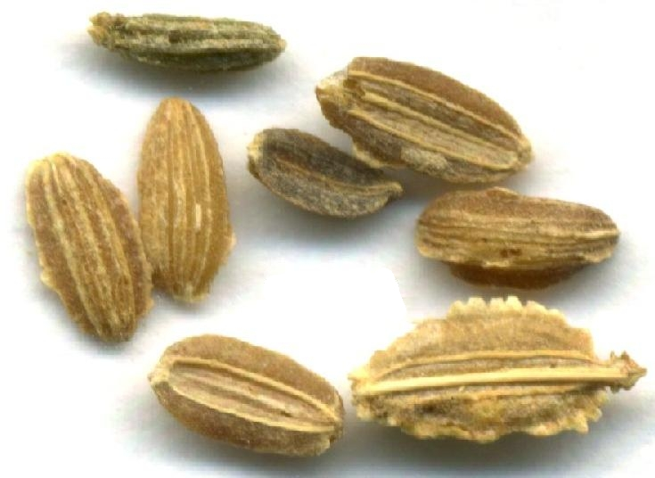 The seeds of a carrot, possibly Daucus carota subsp. sativus. Cropped from the "3D" picture File:Carrotseeds3d.jpg.